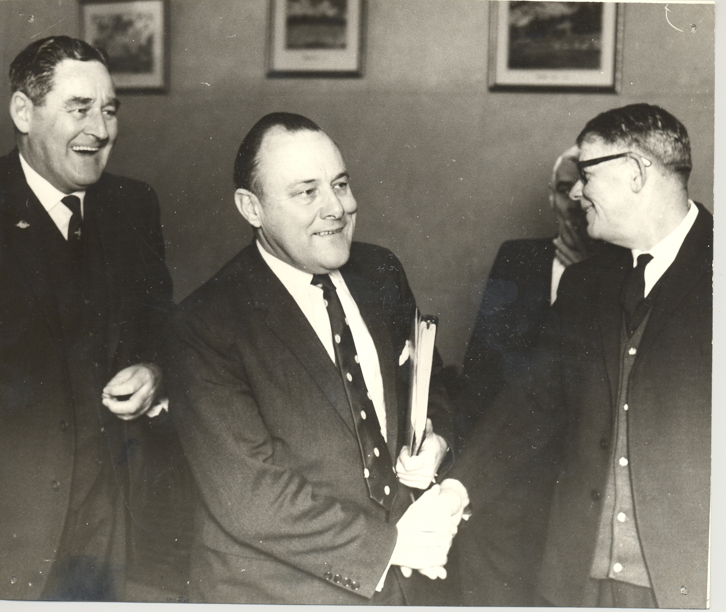 Minister of Finance, Mr Muldoon, (at centre) and the Member for Otaki, Mr A. McCready greet Mr A.J. Shaw, Before luncheon. Thurs. 26 June 1969.